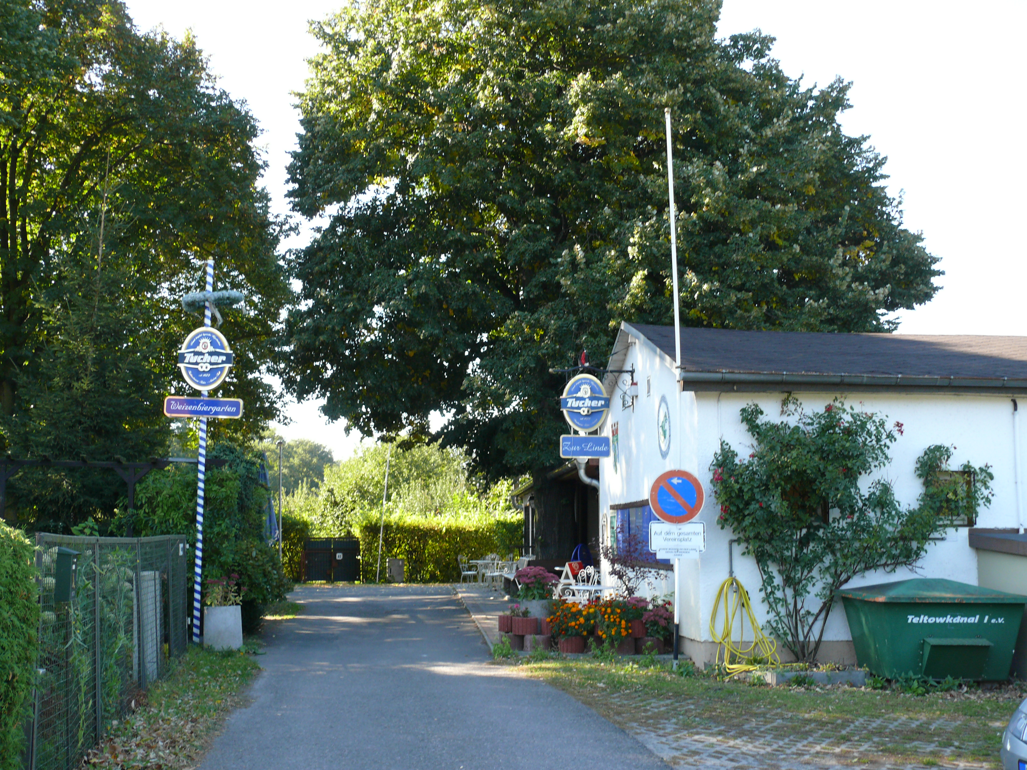 Berlin-Johannisthal KGA Teltowkanal I-001